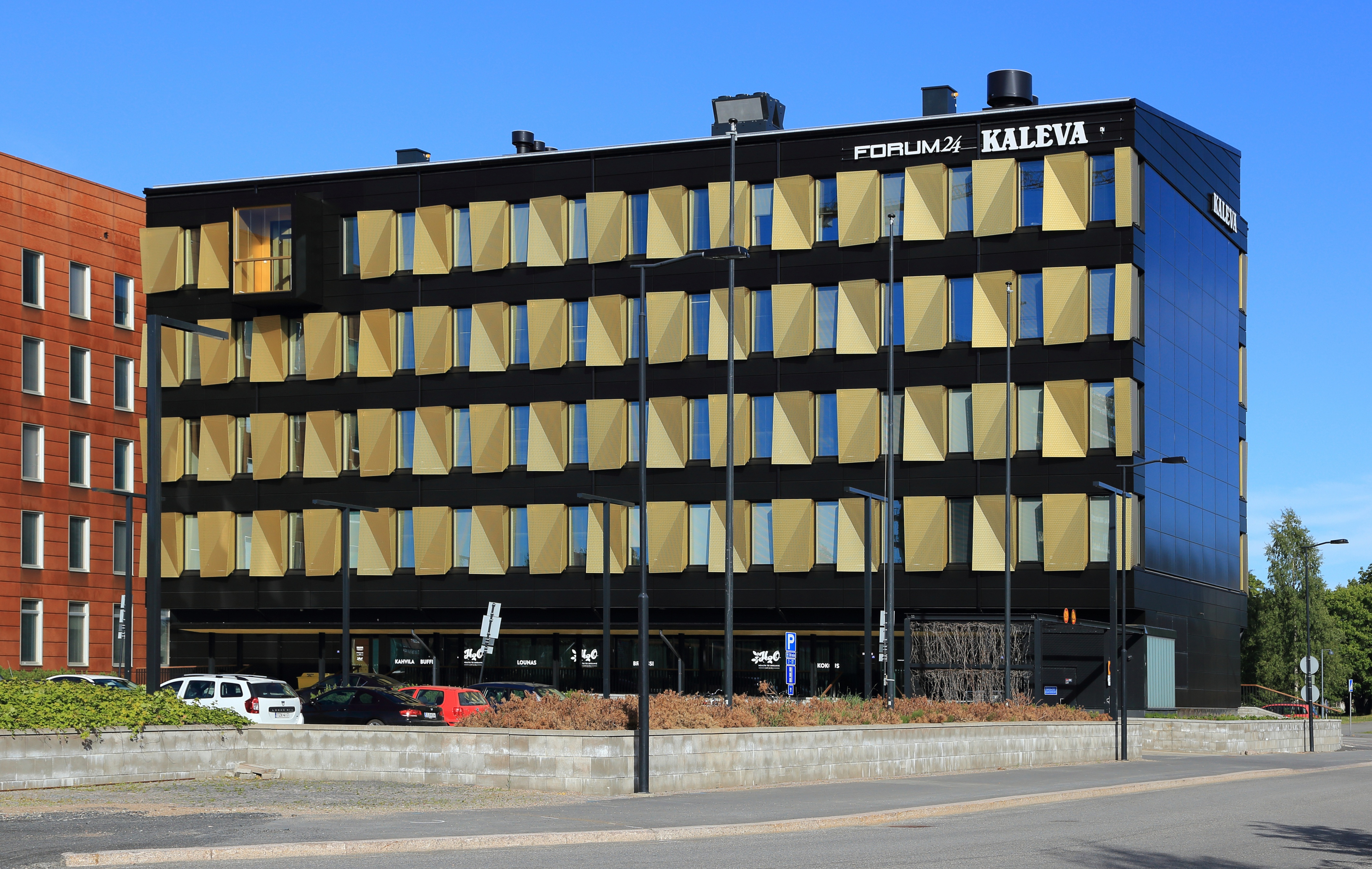 The headquarters of the Kaleva newspaper in Oulu.